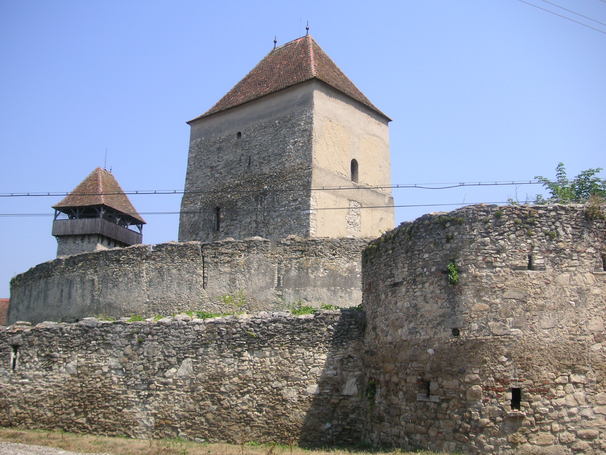 Transylvanian Saxon citadel in Calnic, Romania 04